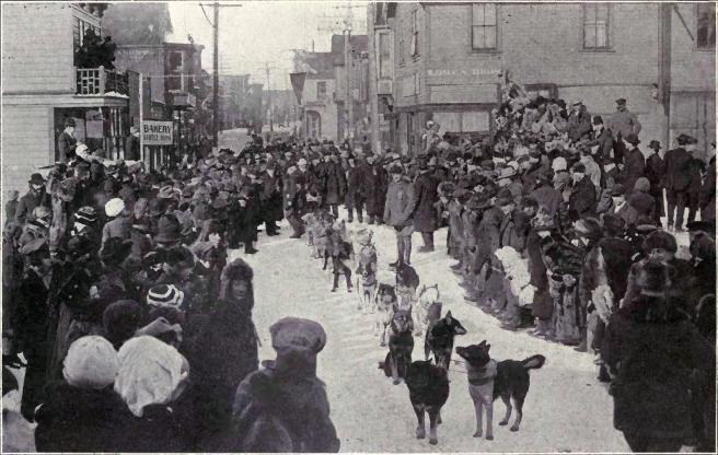 "The starting of John Johnson's team of Siberians in one of the All Alaska Sweepstakes races in Nome, Alaska